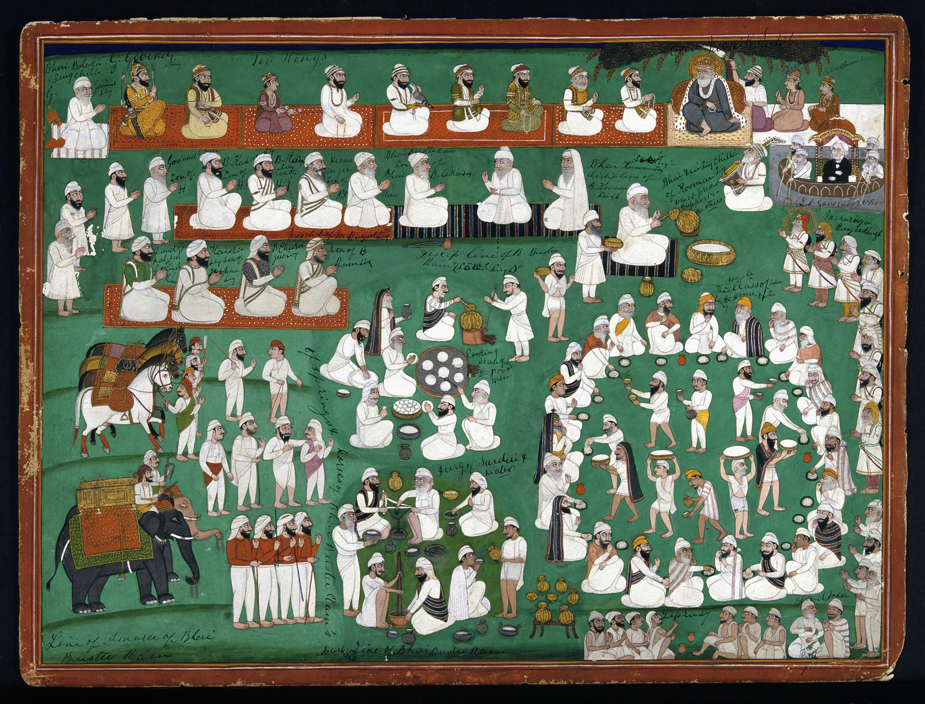 Kings and devotee Sikhs paying homage to Guru Nanak, the founder of the Sikh religion. Iconographic Collections Keywords: Horses; Horse; Elephants; India; Feast; Banquet; Religion; Sikhism; Guru Nanak; Elephant; Worship